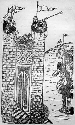 View of Alamut besieged.